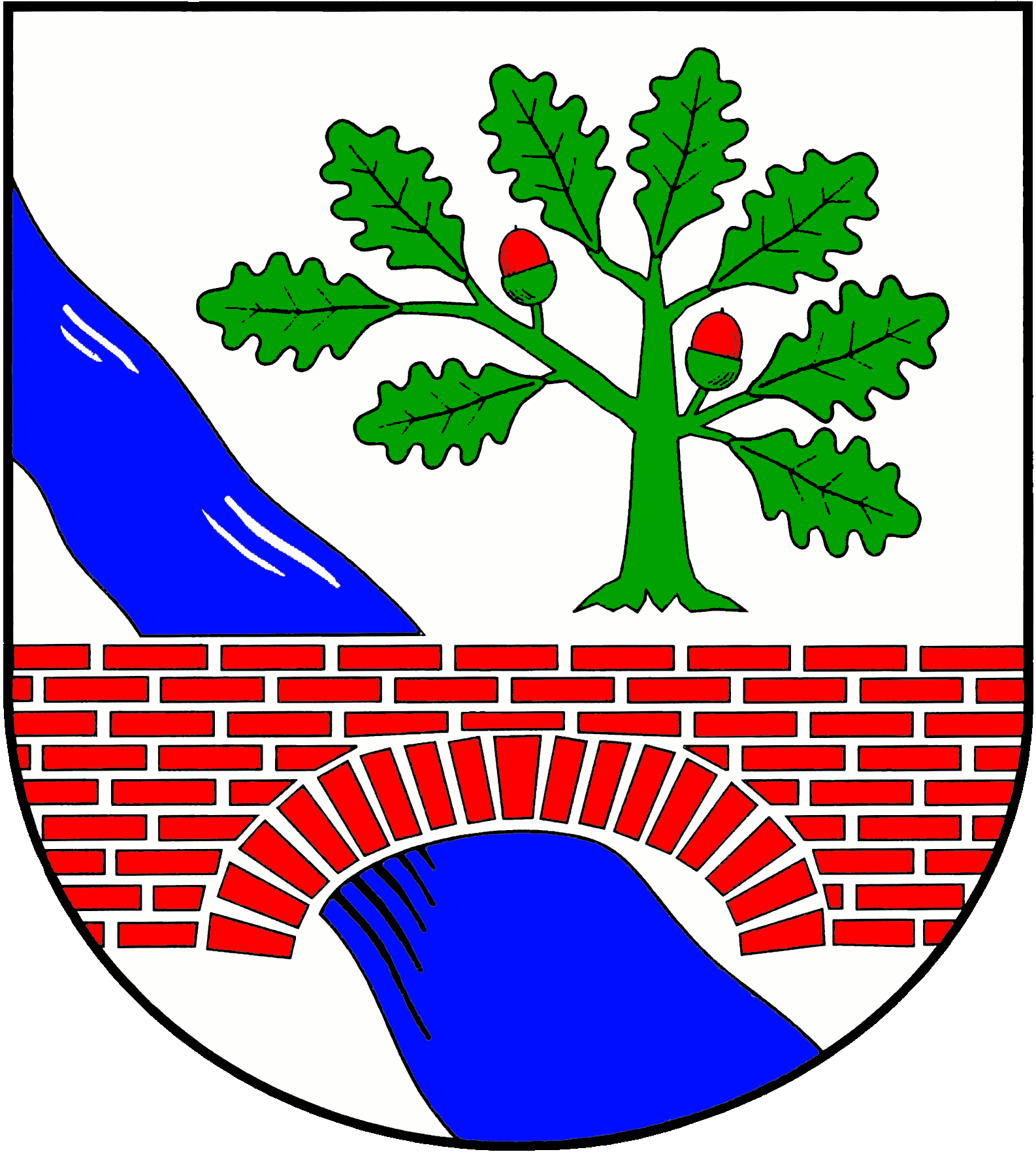 Coat of arms of the municipality Klein Gladebrügge in Schleswig-Holstein, Germany.